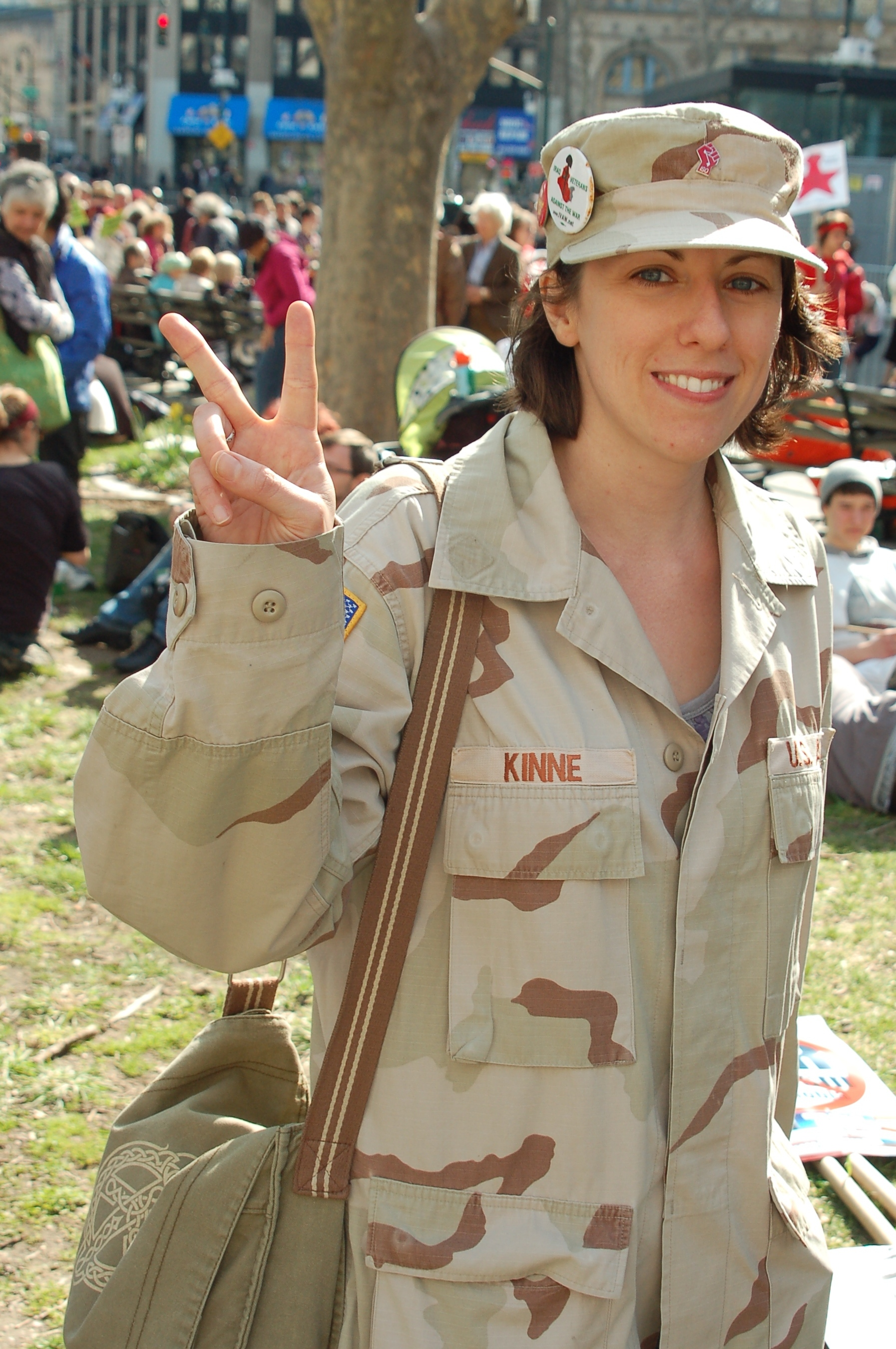 NSA whistleblower Adrienne Kinne at an anti-war protest in New York City.